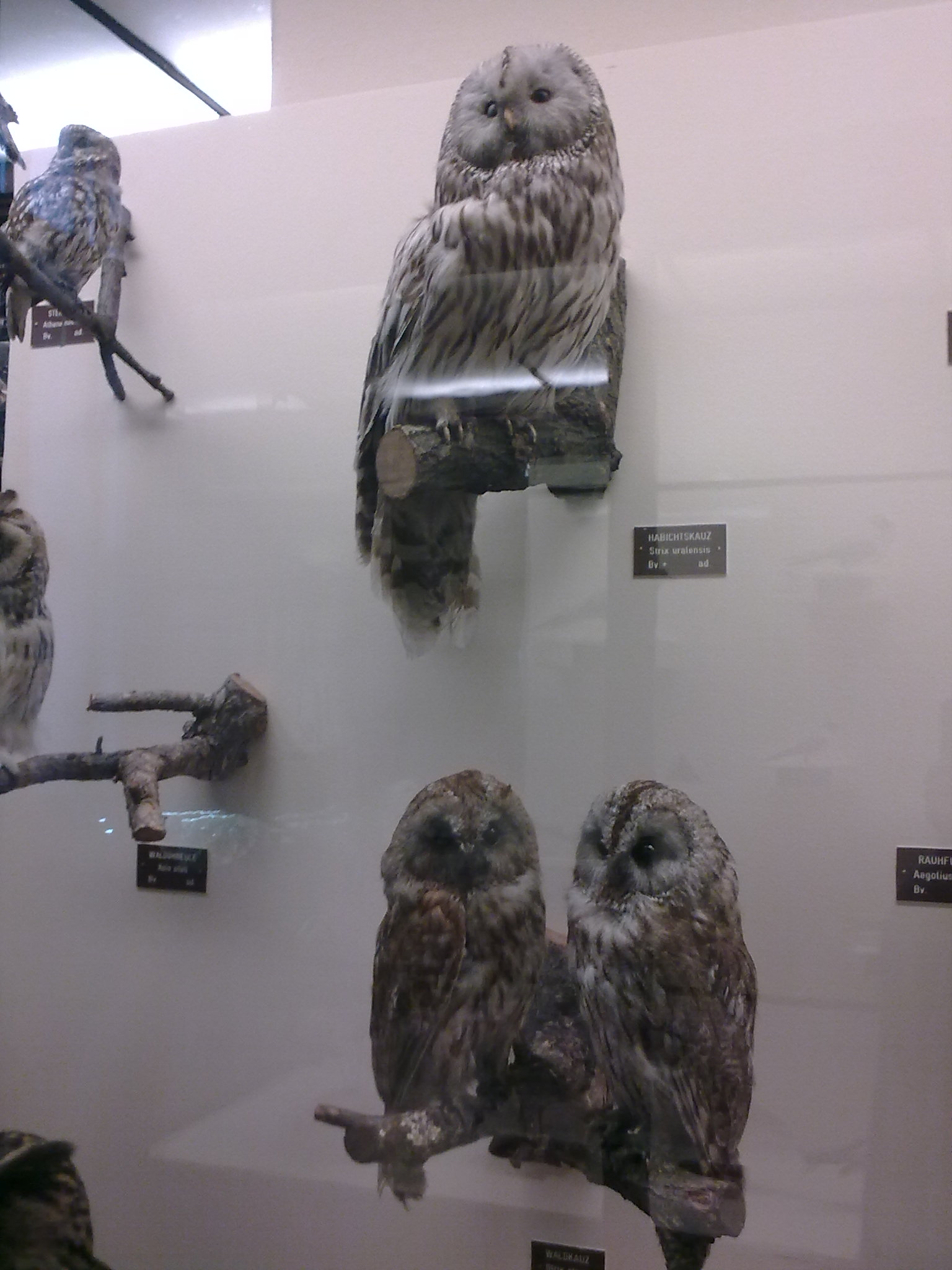 Three taxidermied birds exhibited in Naturhistorisches Museum, Wien. On the top is a Strix uralensis; on the bottom are two Strix aluco. I've taken this photo on 2018-03-14. Sorry for the reflections on the glass pane.